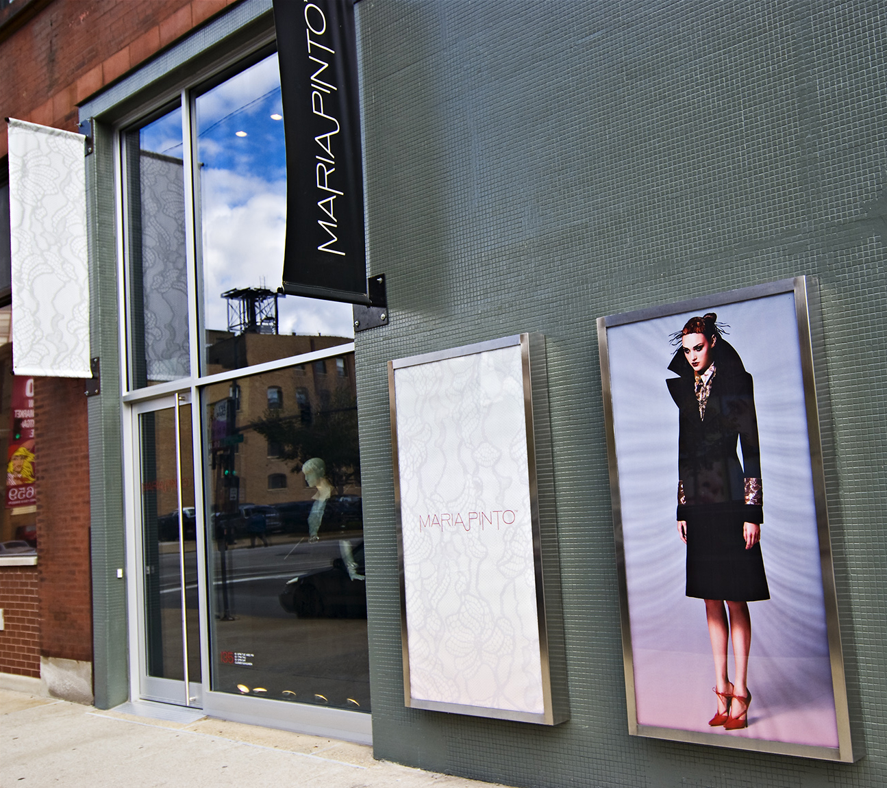 Maria Pinto's boutique in Chicago, Illinois. (It has since been closed.)